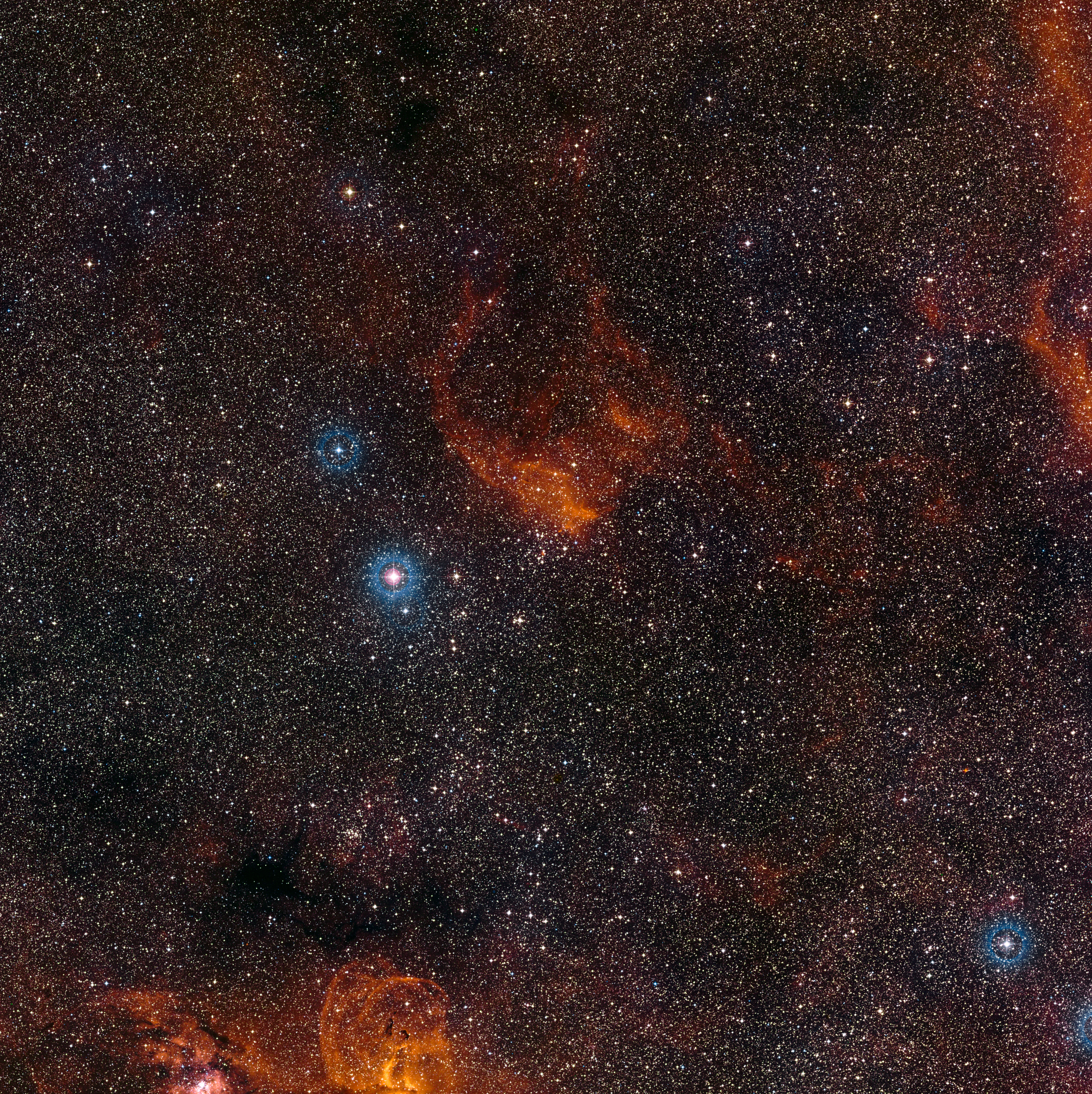 This wide-field image shows the patch of sky around the star cluster NGC 3572 and its associated gas clouds. This view was created from photographs forming part of the Digitized Sky Survey 2. The spikes and blue circles around the stars in this picture are artifacts of the telescope and the photographic process.